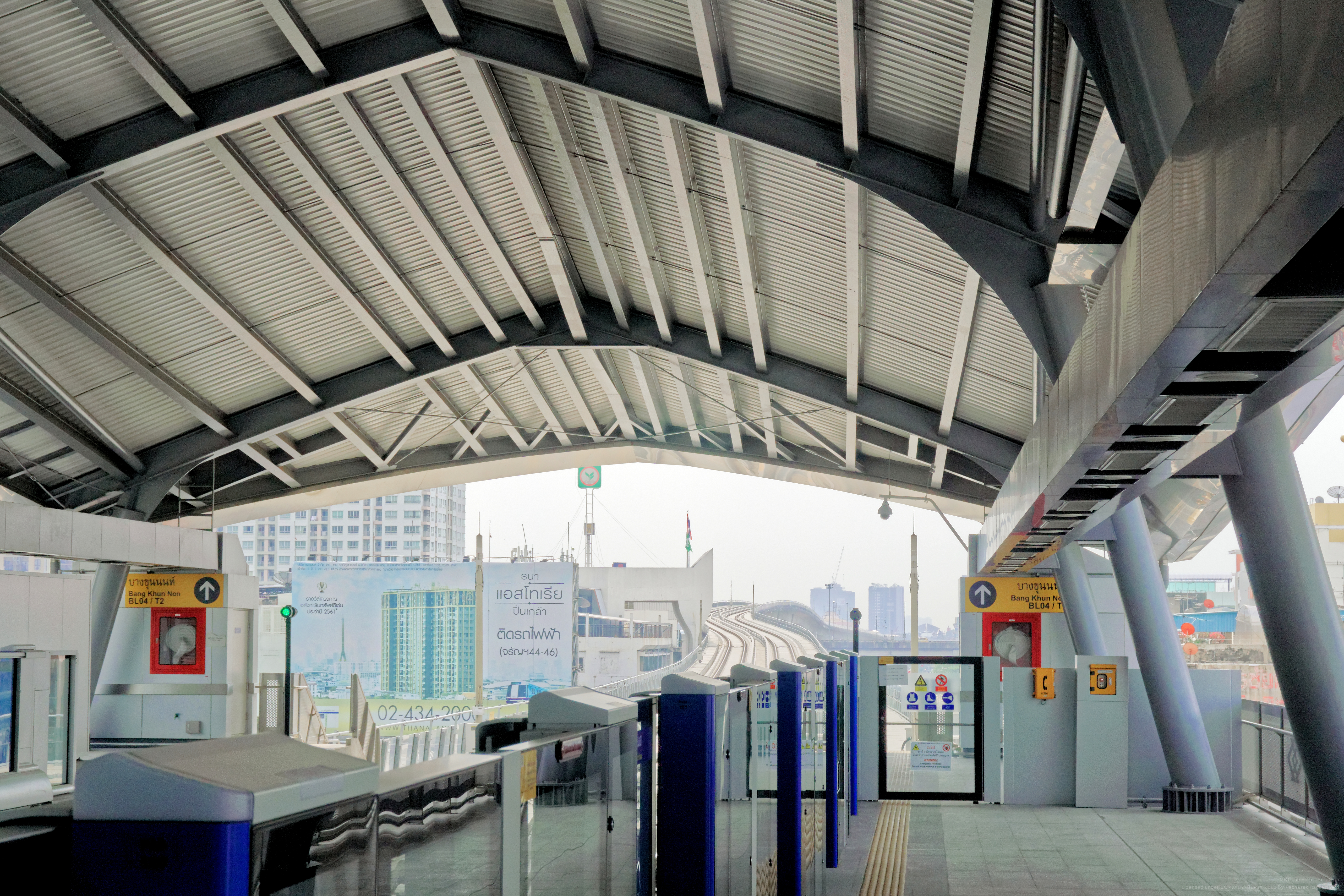 MRT Bang Yi Khan – Platform . Looking toward the intersection crossing bridge